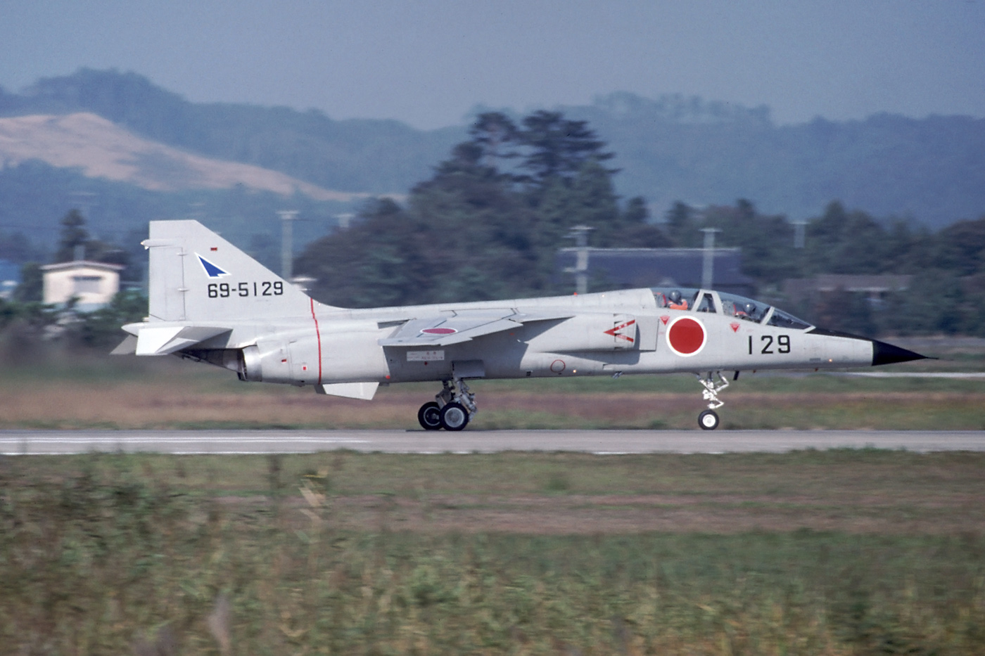 Matsushima, Japan, October 1994. A Mitsubishi T-2 of 21 Hikotai, used for advanced training. This type of aircraft was retired in 2006 and the base was destroyed by the tsunami in 2011. In 2015 it's still now fully functional.